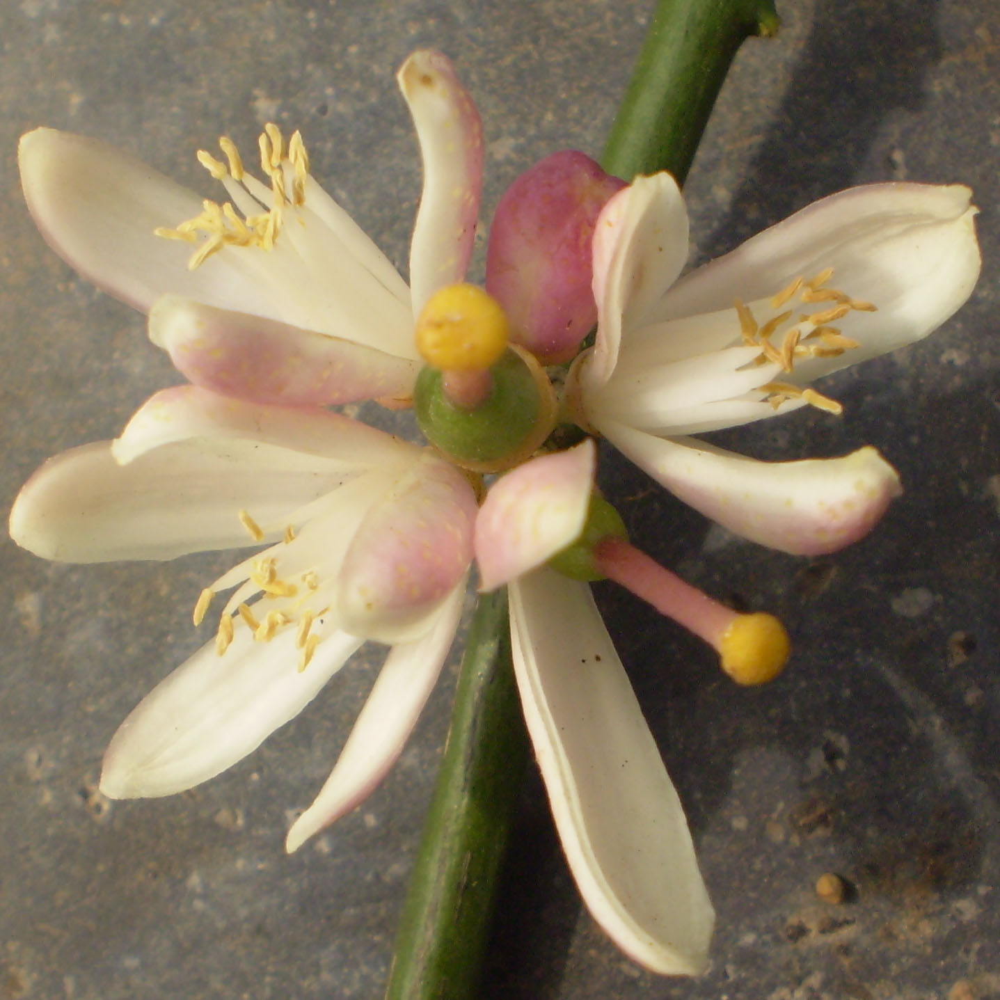 Lemon tree flower in Vietnam